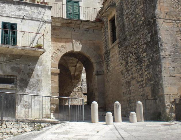 Porta Walter, ancient gate of the baroque town of Ragusa, Sicily.